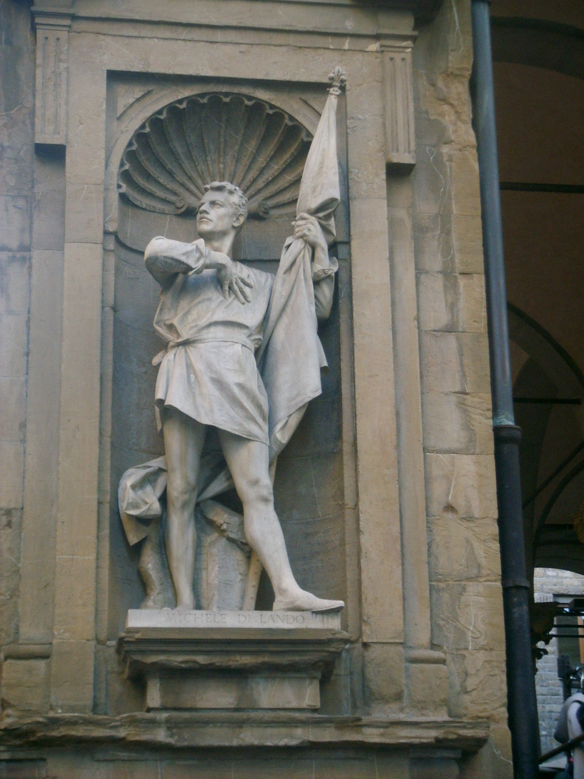 The 14th century political leader Michele di Lando. Statue in the Loggia del Mercato Nuovo in Florence (Italy).